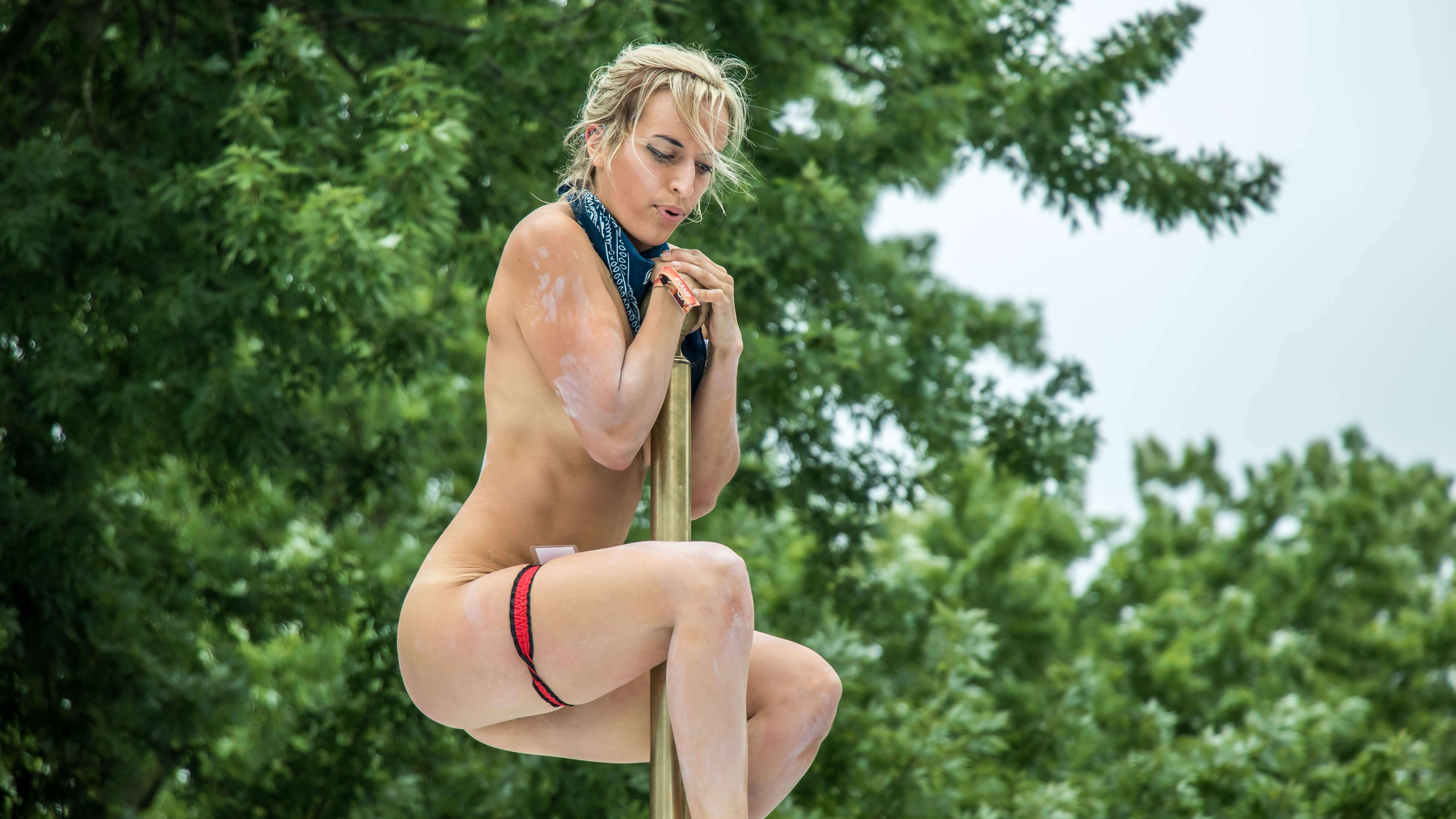 A woman dancing on the pole.